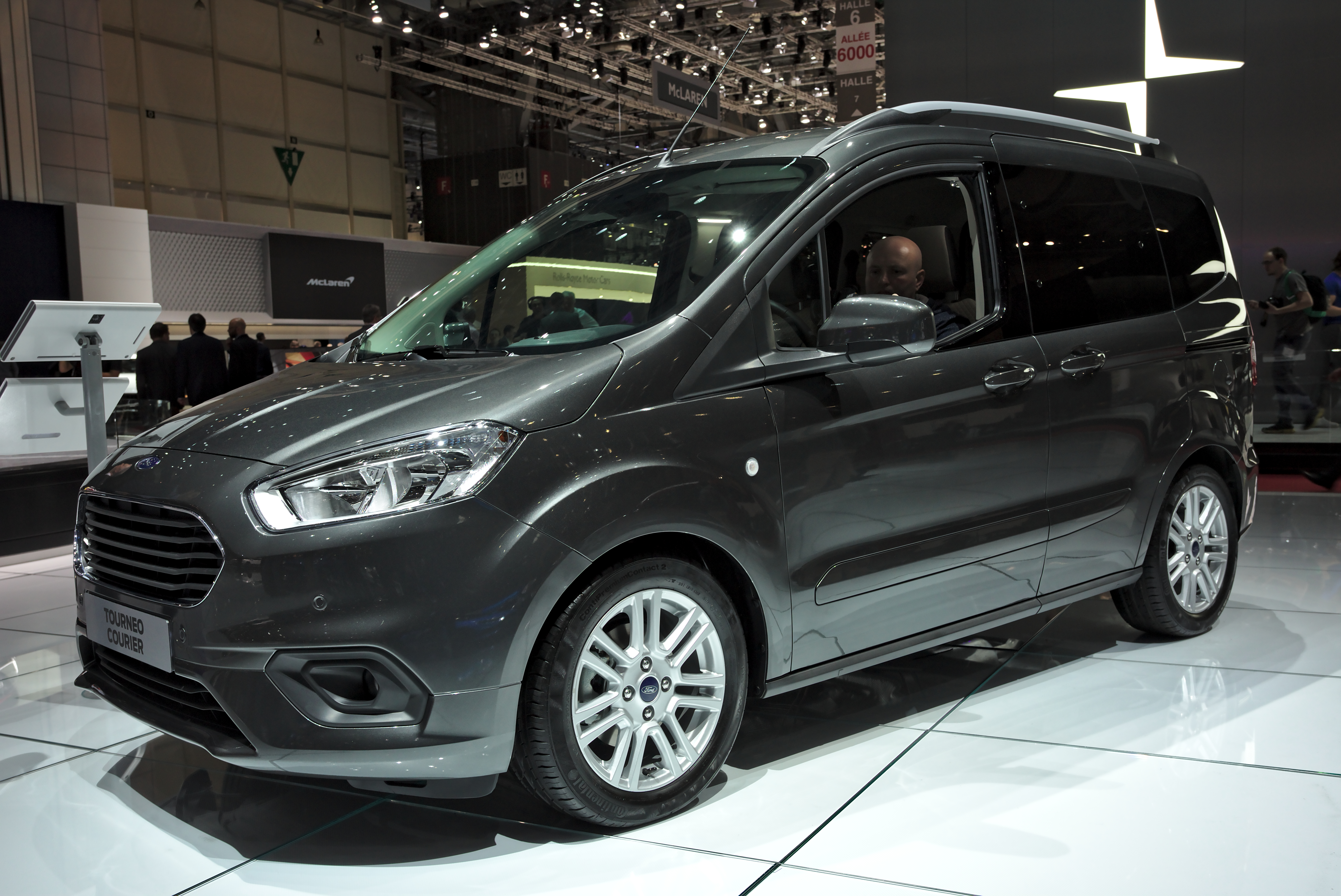 Ford Tourneo Courier at Geneva Motorshow 2018